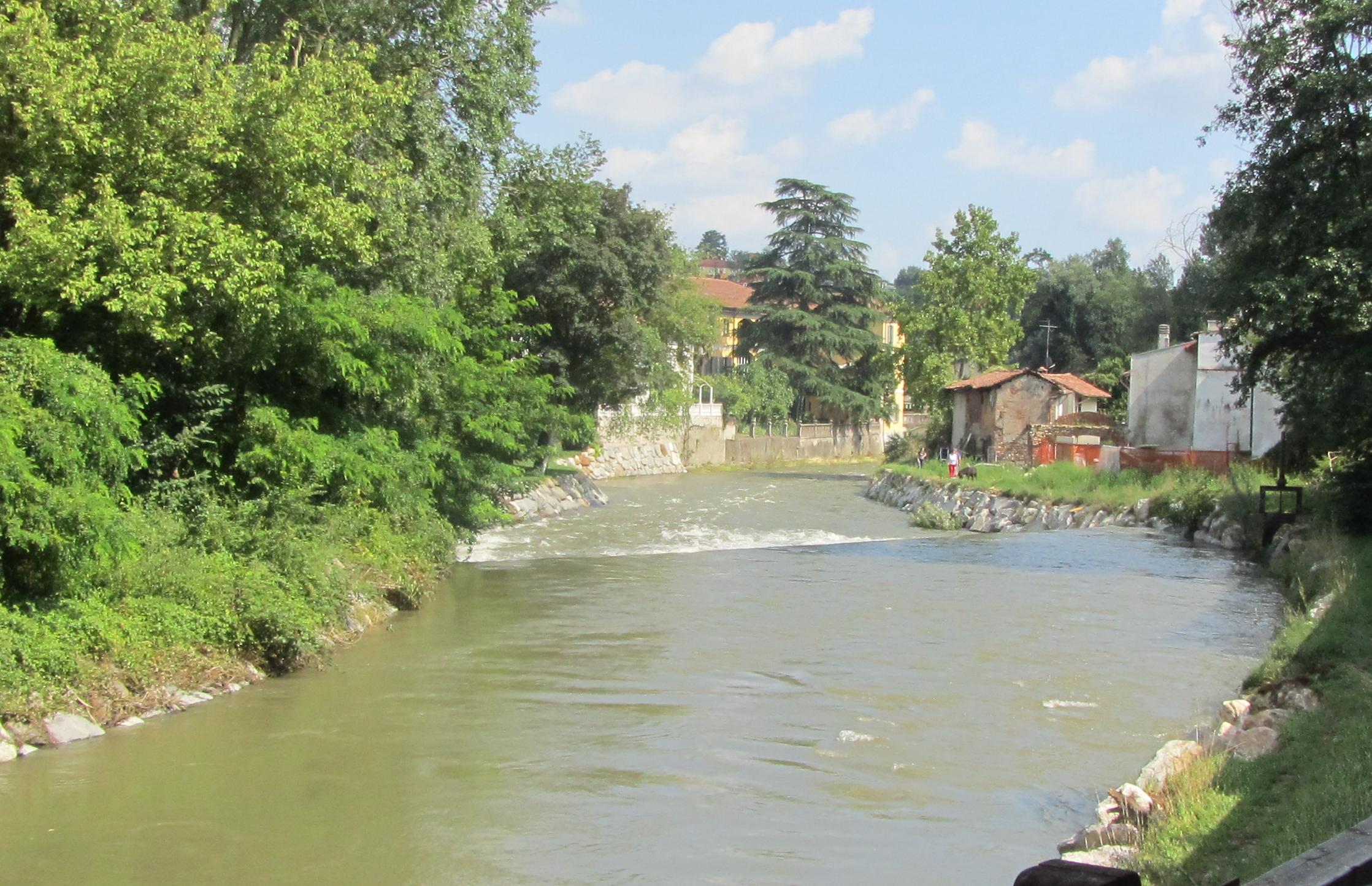 Lambro River near Verano Brianza/Agliate